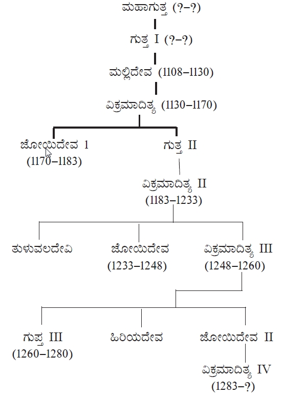 ವಂಶ ವೃಕ್ಷ